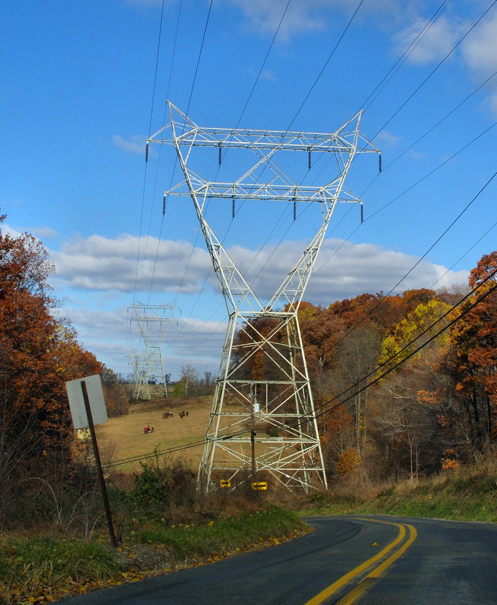 Power transmission lines as part of Amtrak's 25 Hz Traction Power System carrying four 25 Hz, 138 kV circuits from the Safe Harbor Dam to Amtrak's Northeast Corridor Line at Perryville, Maryland.